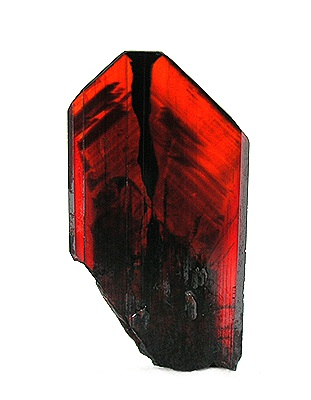 Brookite Locality: Kharan, Balochistan (Baluchistan), Pakistan (Locality at ) Size: thumbnail, 2.3 x 1.3 x 0.1 cm Brookite Xl A stunning, cherry-red brookite crystal from recent finds here! These bright red examples have set a new standard for the species! 2.3 x 1.3 x 0.1 cm